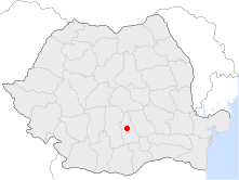 Location of Târgoviște in Romania.